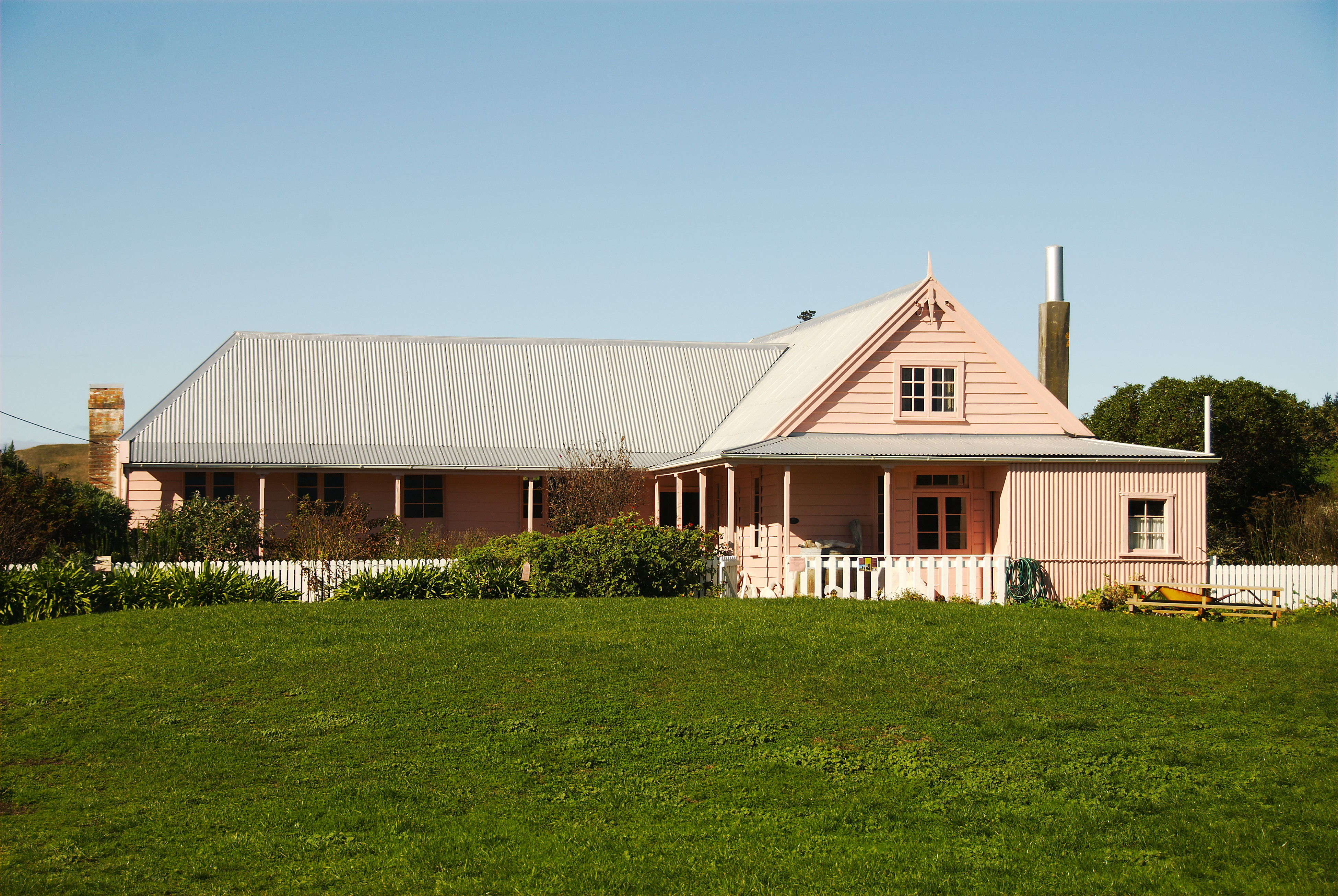 Fyffe House in Kaikoura, owned and operated by the New Zealand Historic Places Trust